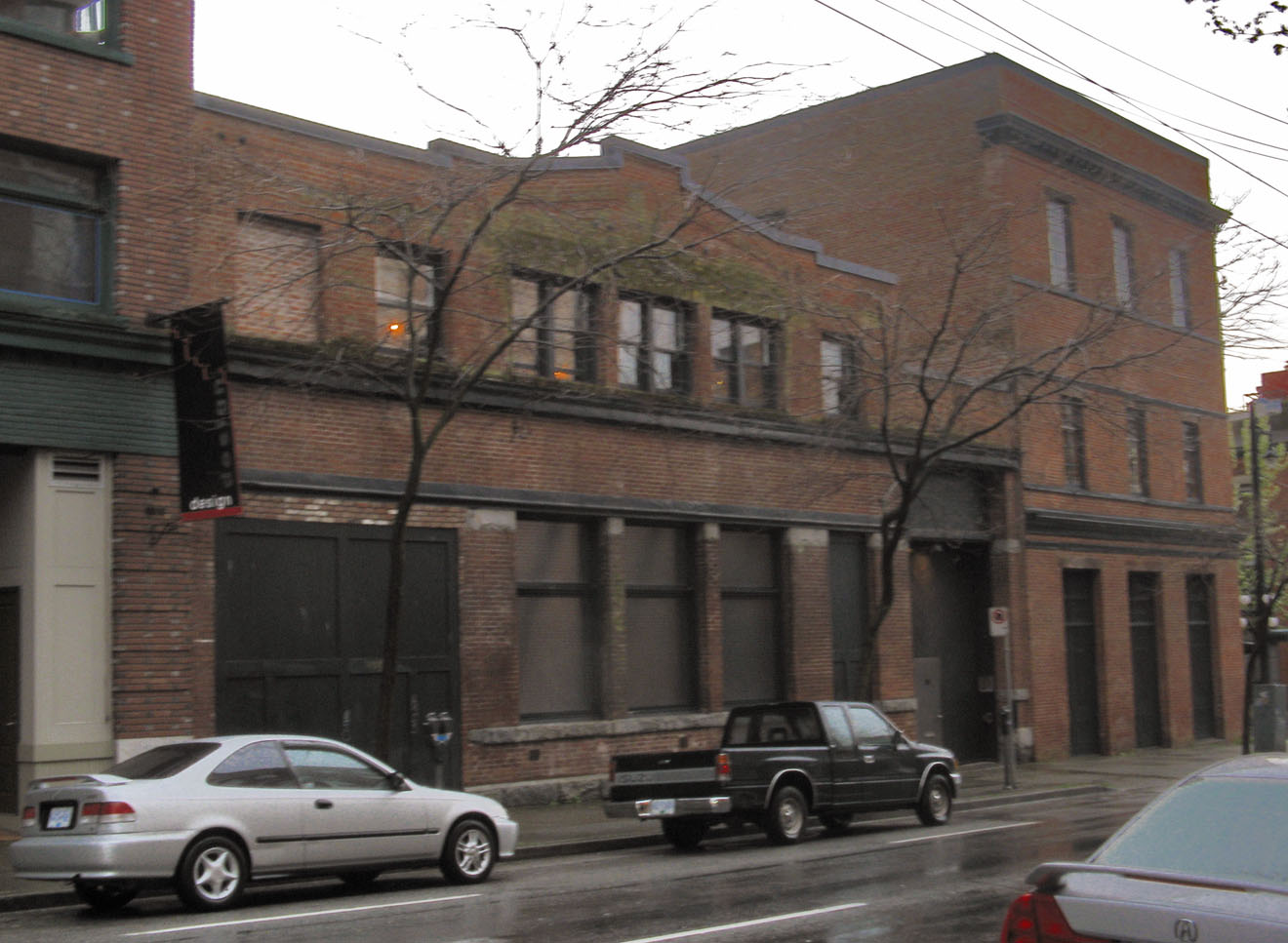 Bryan Adams's Warehouse Studio (100 Powell St.) in Gastown, Vancouver. Taken by me, April 2007.